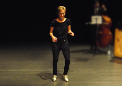 Tap Dance Solo in Berlin